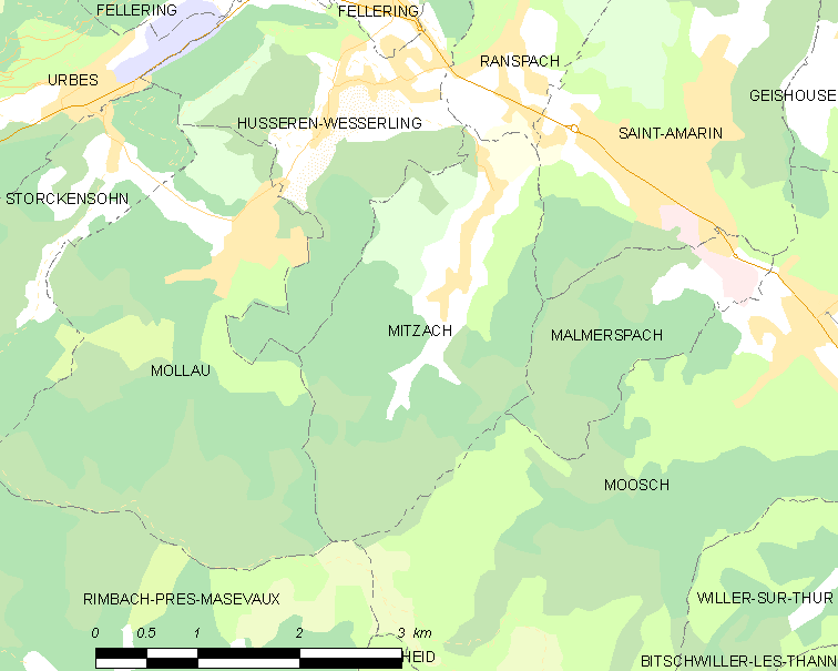 Map of French municipality